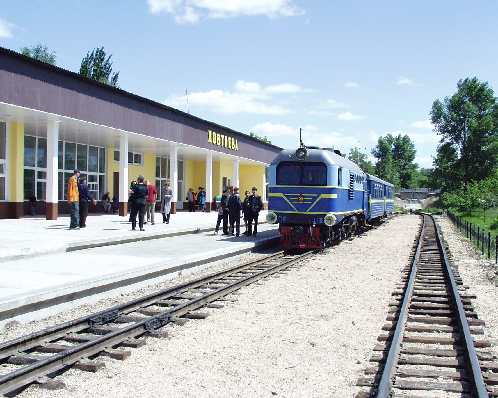 Zaporozhie children's railway. Train at the Zhovtnevaya station.